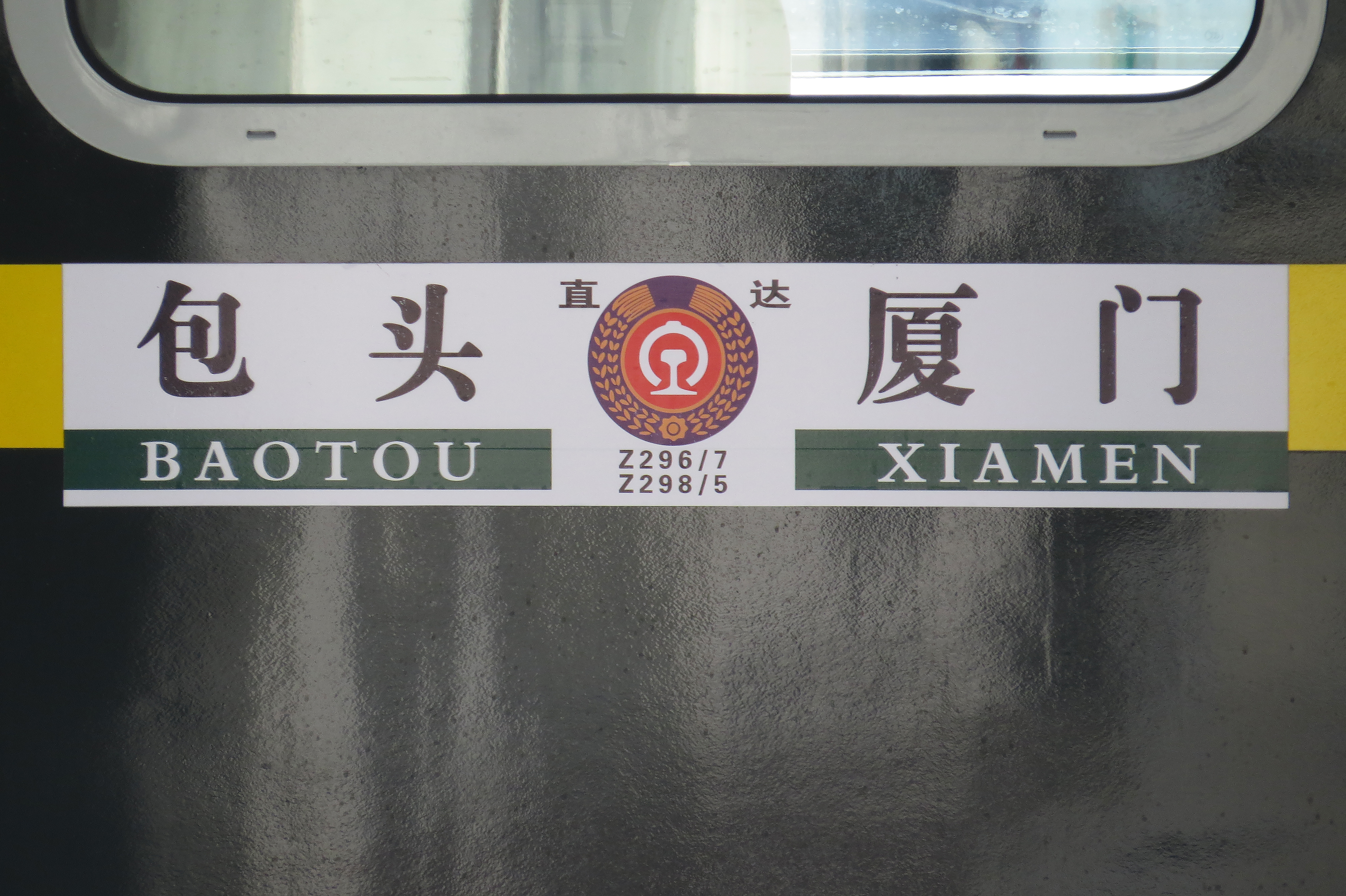 Fresh from Baotou to Xiamen! Taken at Huangcun Railway Station.